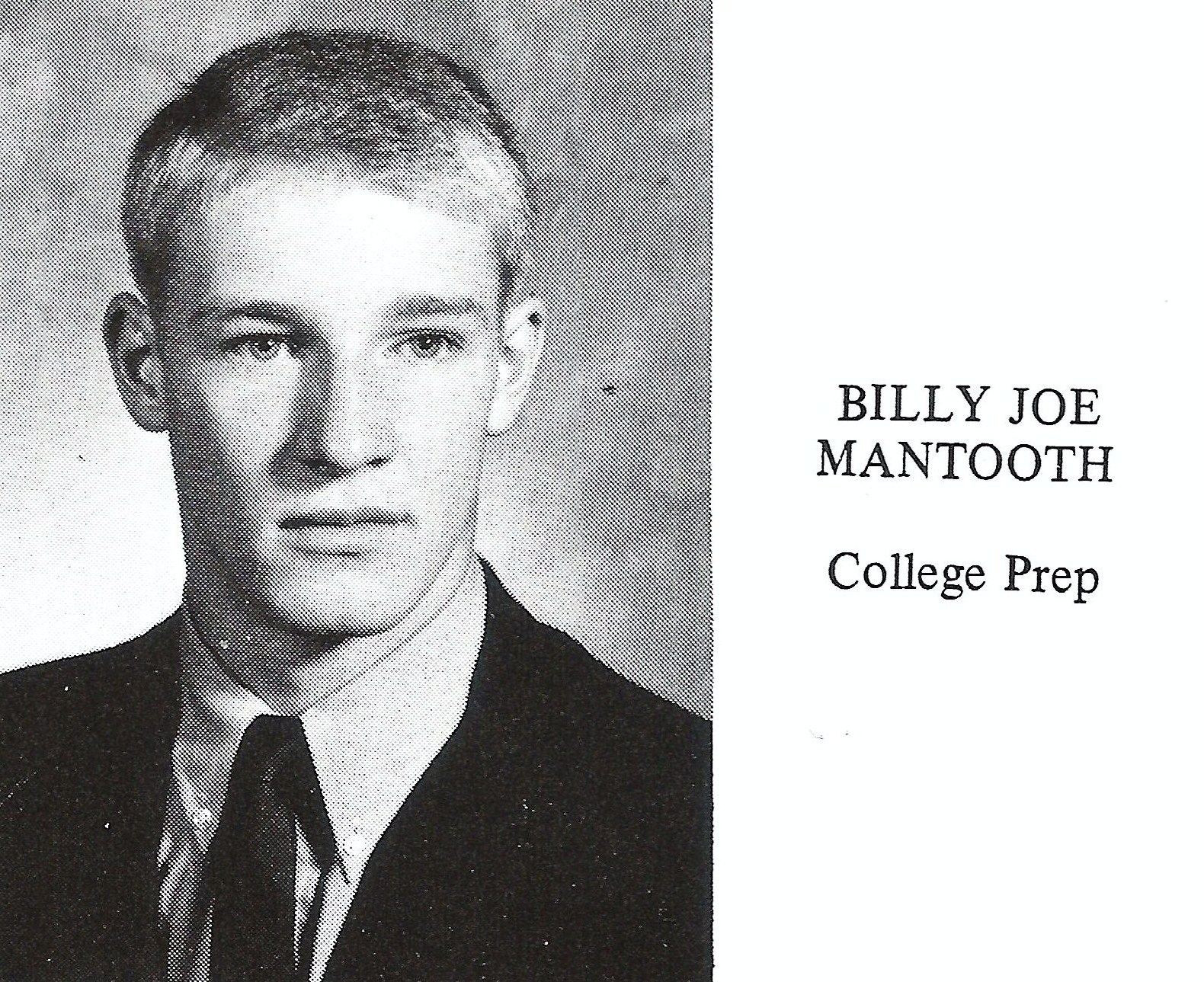 Billy Joe Mantooth (July 23, 1951 – July 23, 1986) yearbook photo from 1969